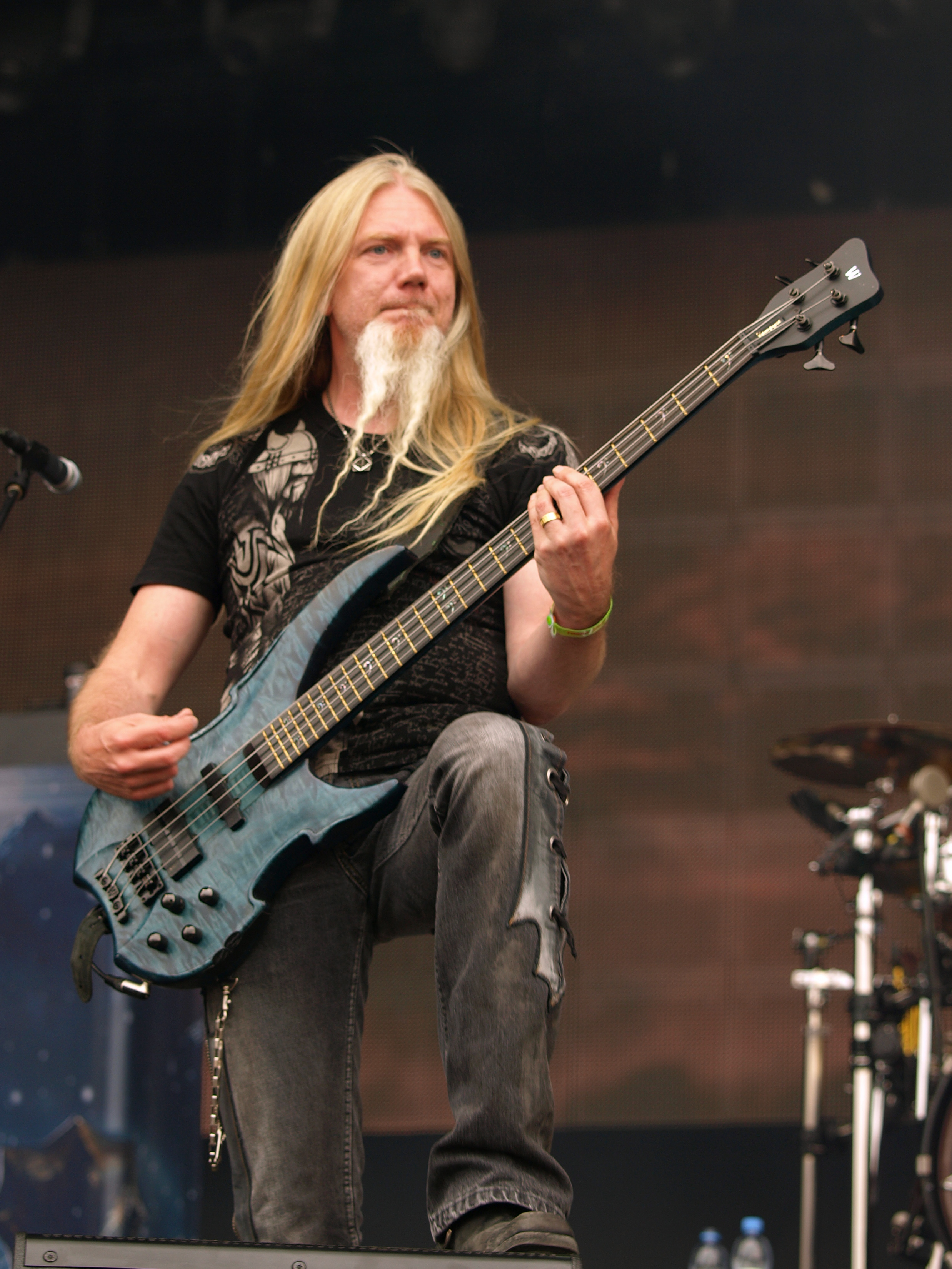 Finnish band Nightwish at Tuska Open Air 2013